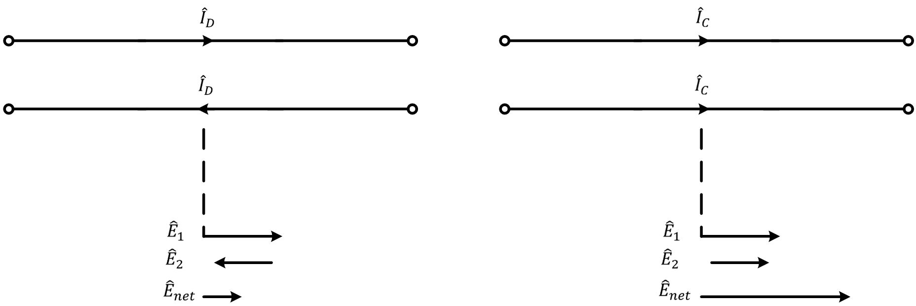 E Field summation between two conductors